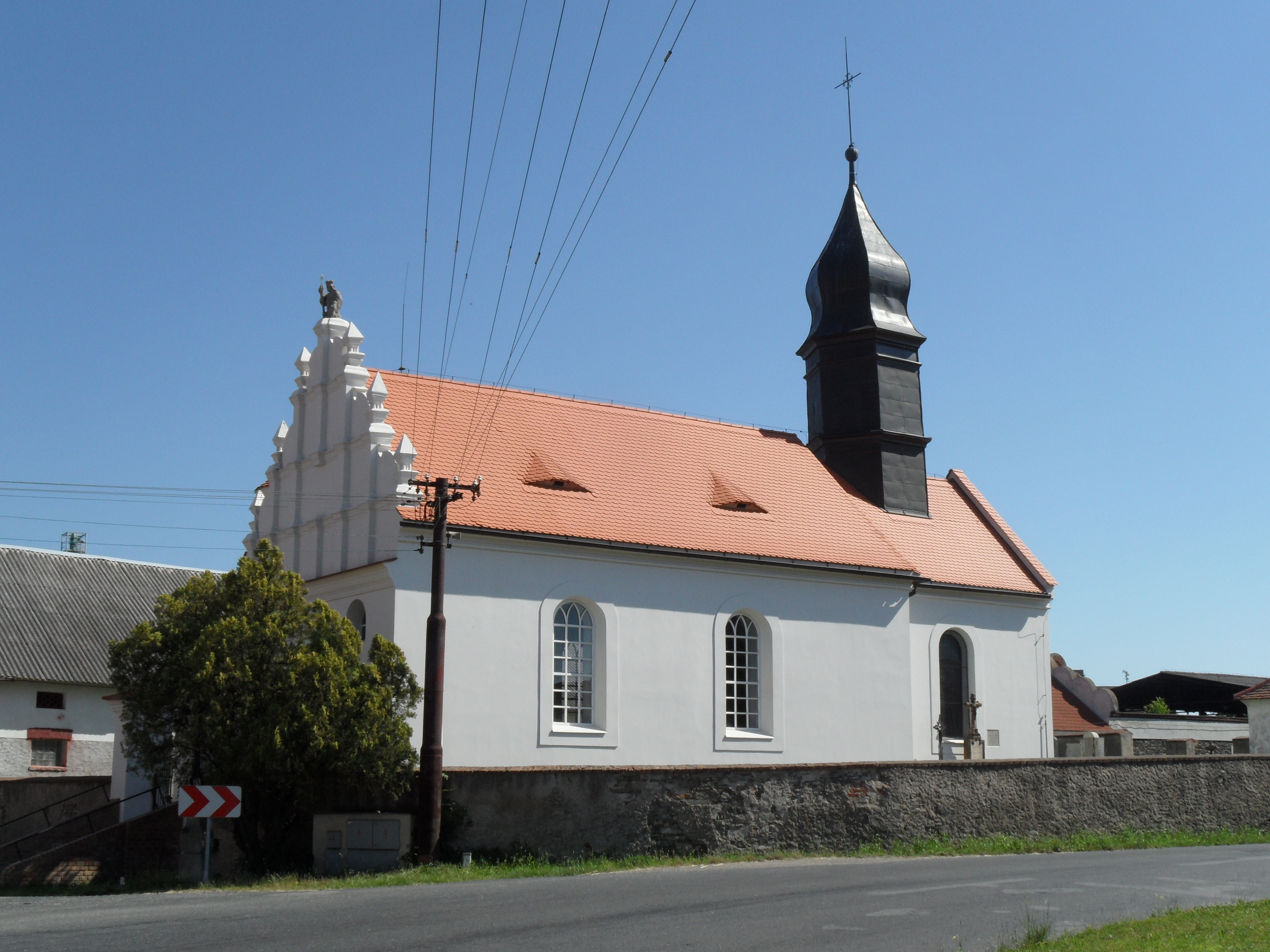 Krchleby A. Church of Saint Wenceslaus: Overview from Road No. II/339. Kutná Hora District, the Czech Republic.